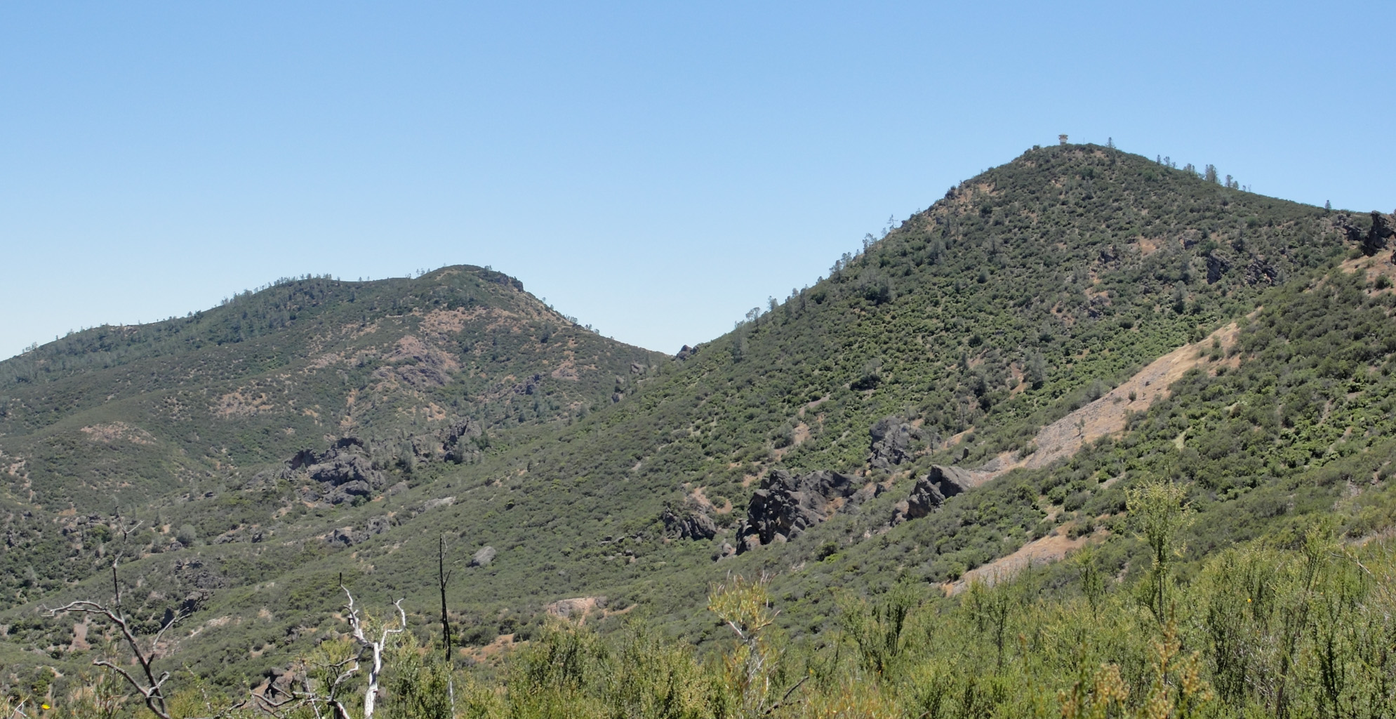 South and North Chalone Peaks of the Gabilan Range, in Pinnacles National Park of California. In the Chalone AVA.